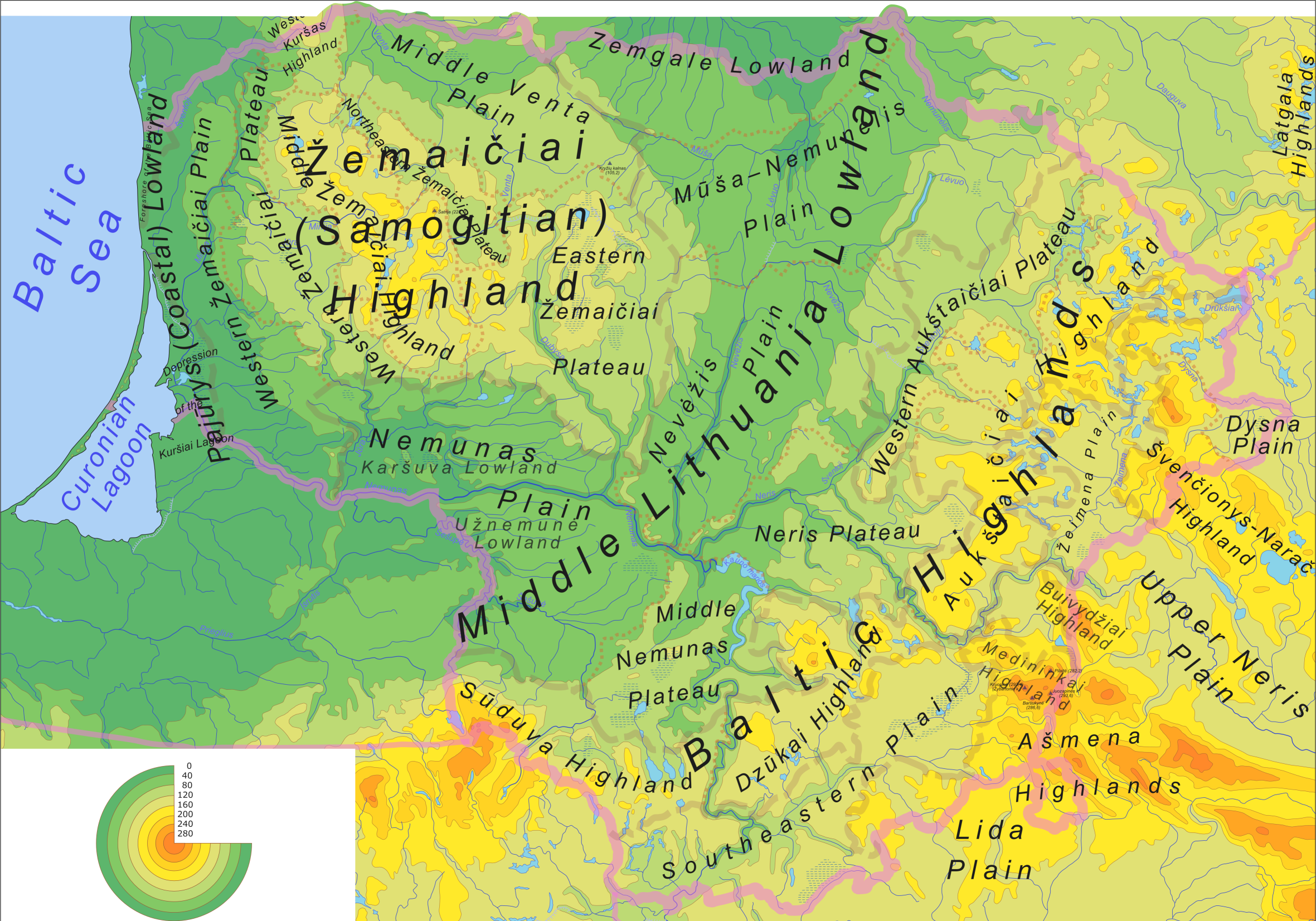 Physical map and geomorphological subdivision of the Lithuania. Source file - Image:LithuaniaPhysicalMap-en.svg